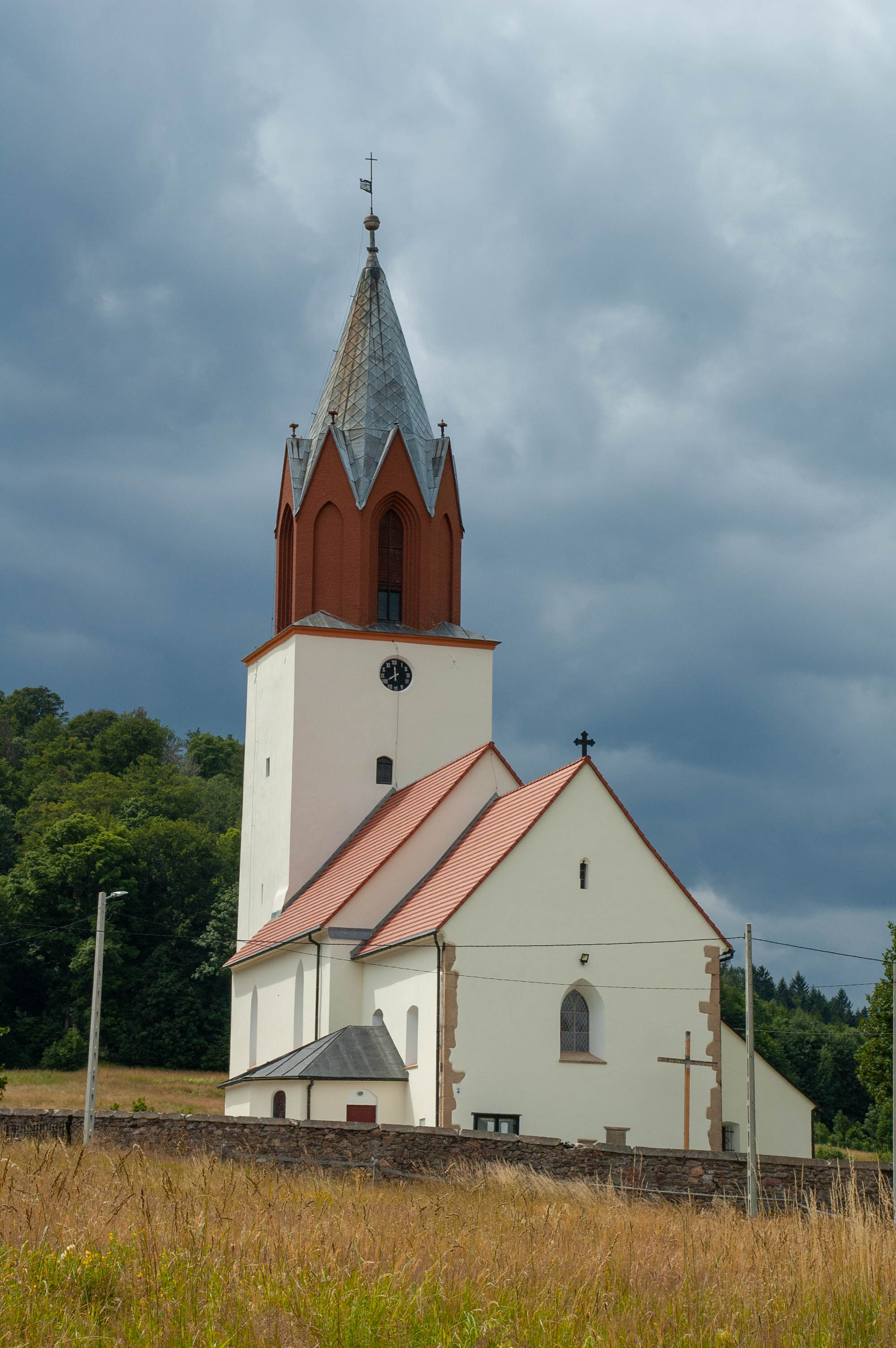 This photograph was created as a part of Wikiexpedition Lower Silesia, a project supported by Wikimedia Poland grant.